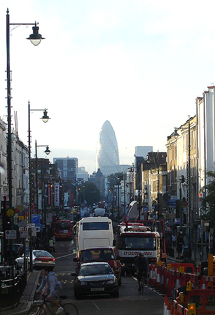 Kingsland High Street, Dalston, Hackney, London. 29 October 2005. Photographer: Fin Fahey.